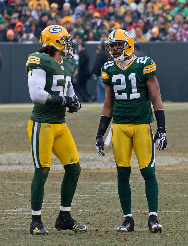 Seattle vs. Green Bay • December 27, 2009 at Lambeau Field in Green Bay, Wisconsin.